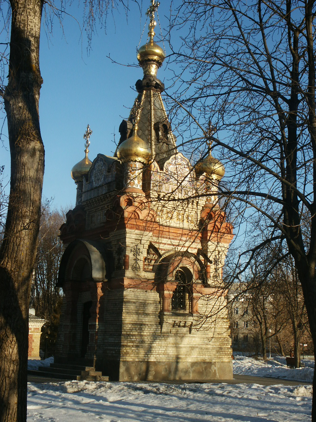 Chapel-burial-vault of Paskevichs family, Homel, Belarus.